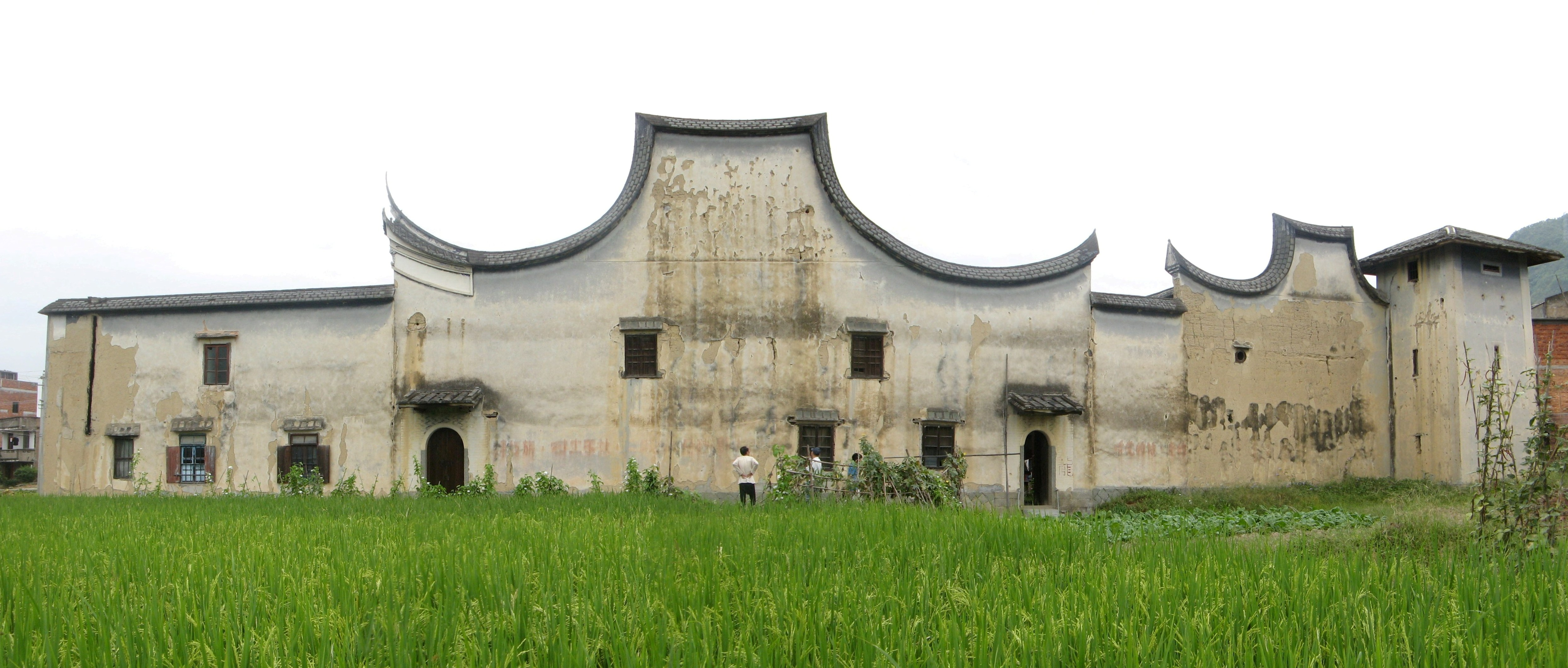 Foochow house in Minqing County